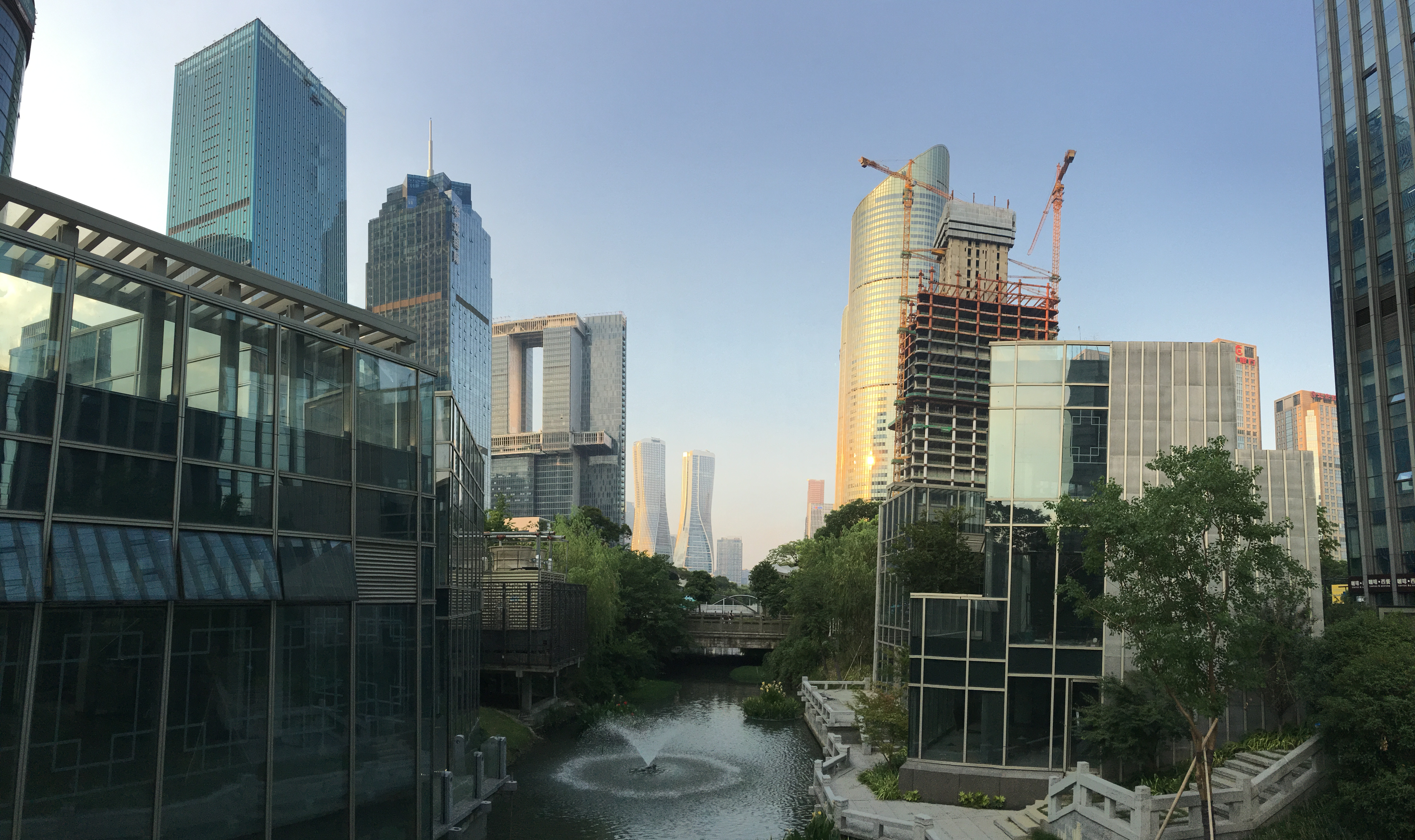 Image from the New business park around Fuchun Road and Qianjiang New Town Forest Park